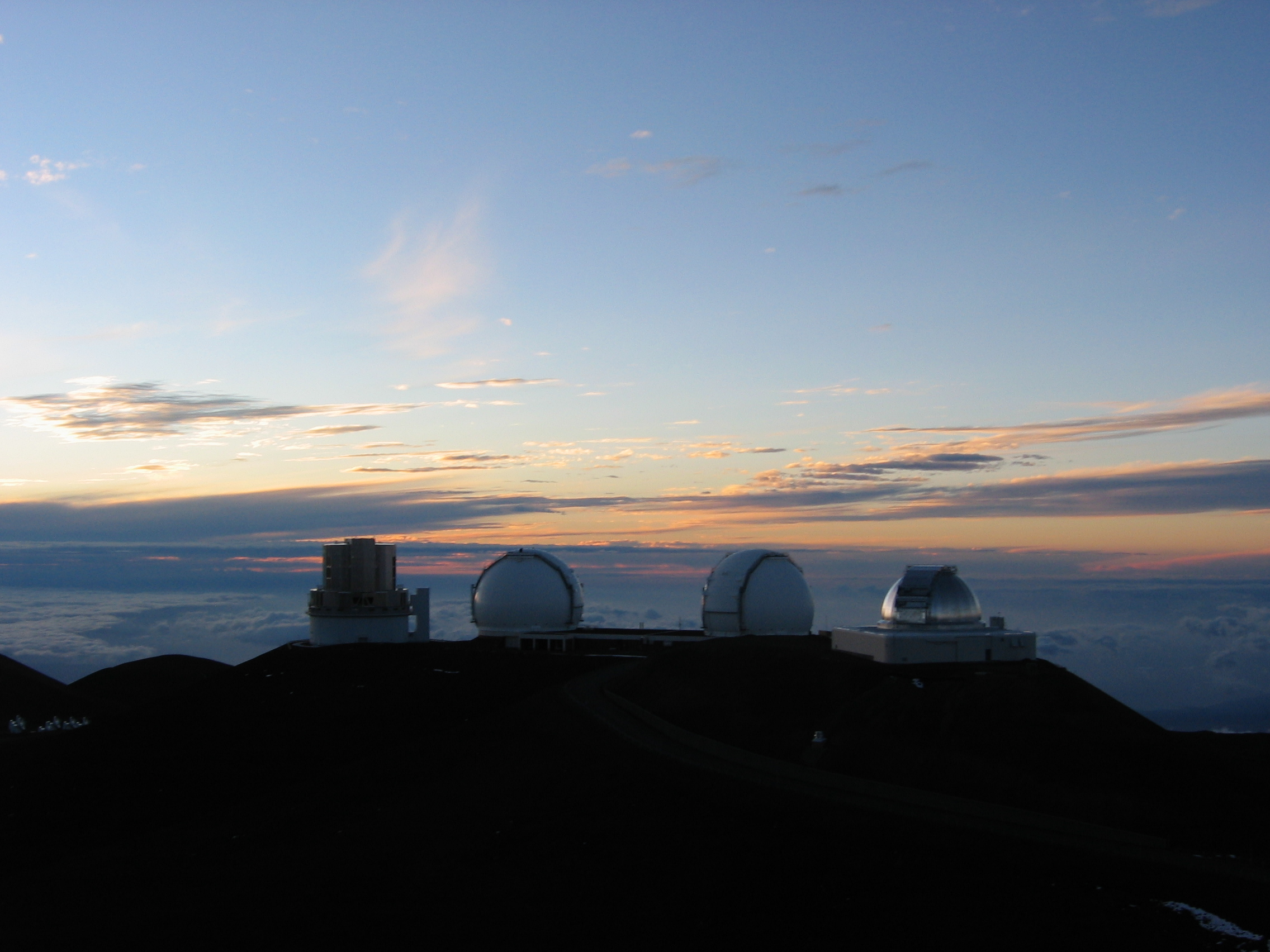 Keck Telescopes at Mauna Kea summit